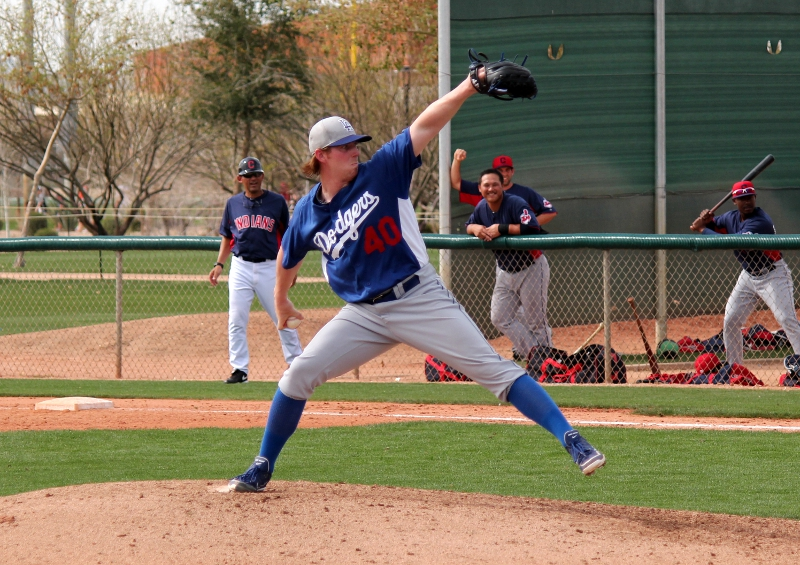 Red Patterson in spring training